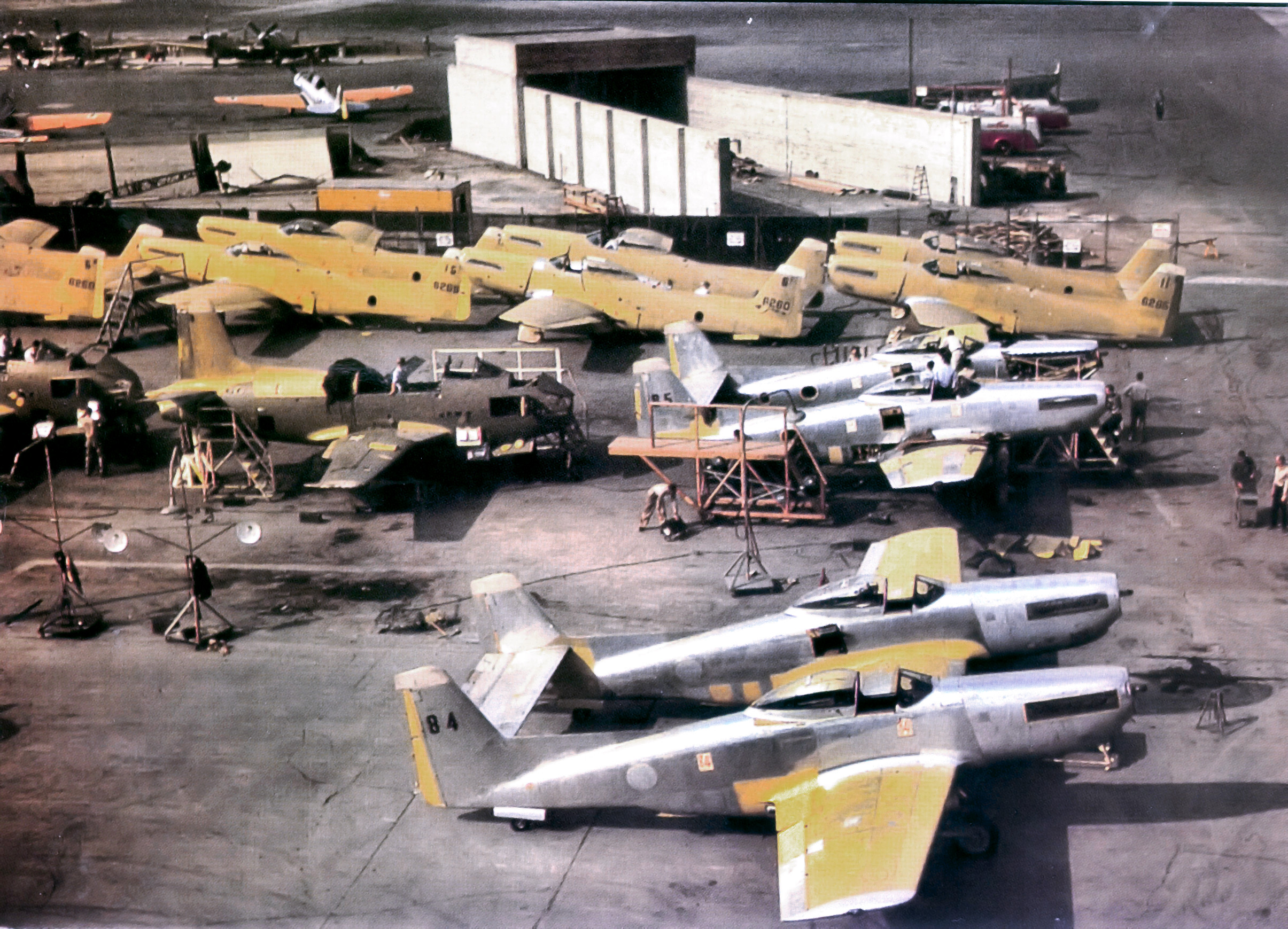 P-82 Twin Mustang fuselages in storage at North American Aircraft in 1947 and two jet engined FJ-1 Fury fuselages